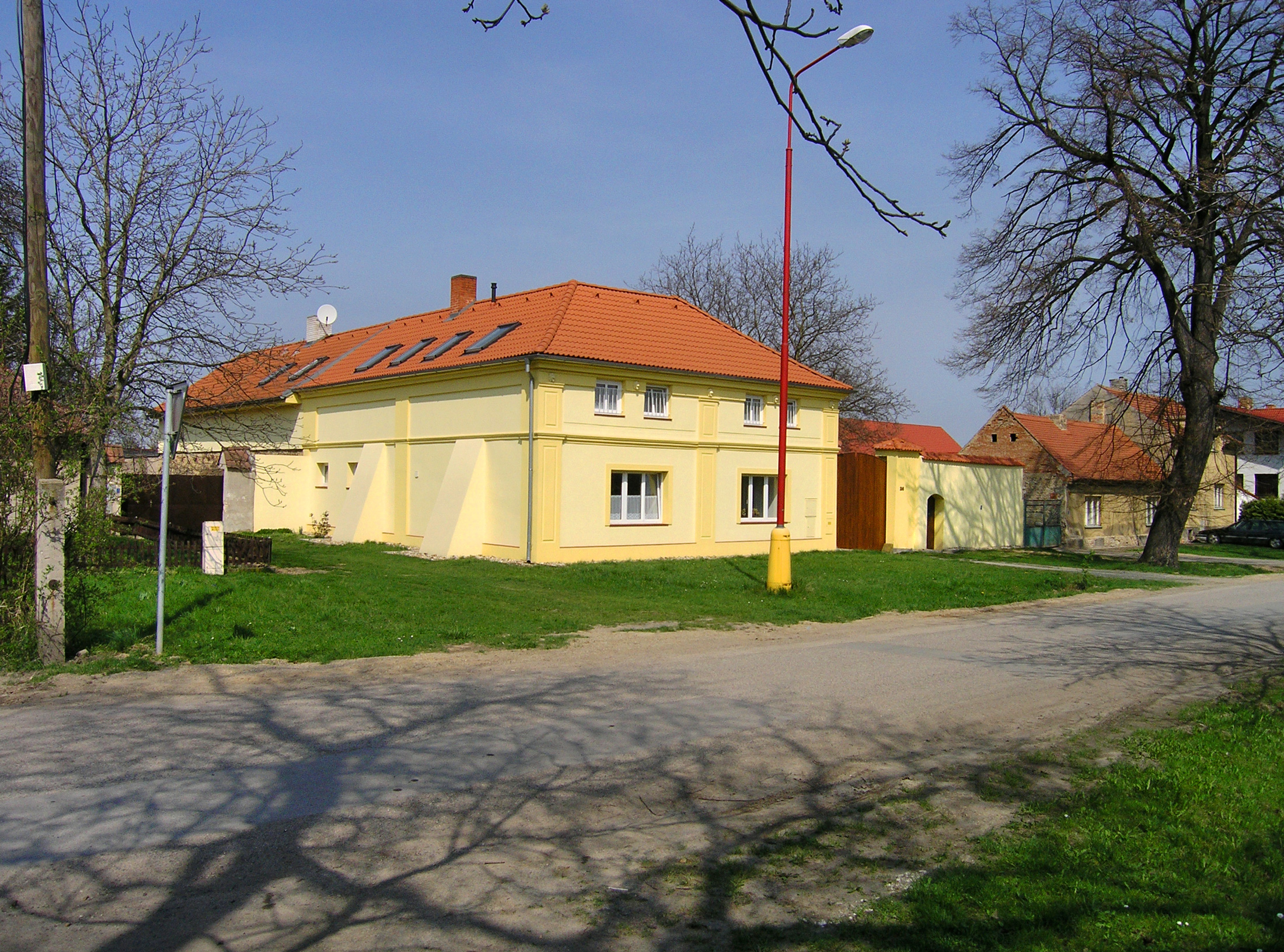 Old farm in Brázdim village, Czech Republic